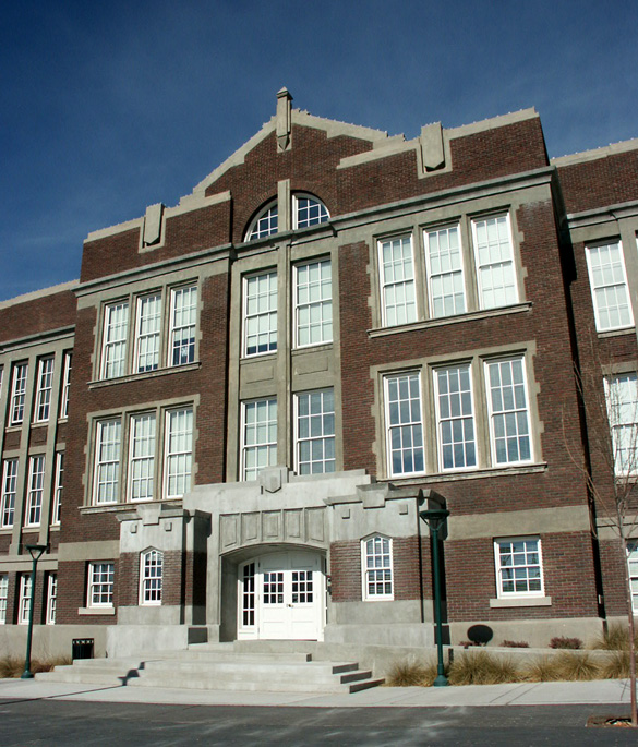 Old Main building of old Albuquerque High School in Albuquerque, New Mexico, USA. Photo by User:camerafiend.